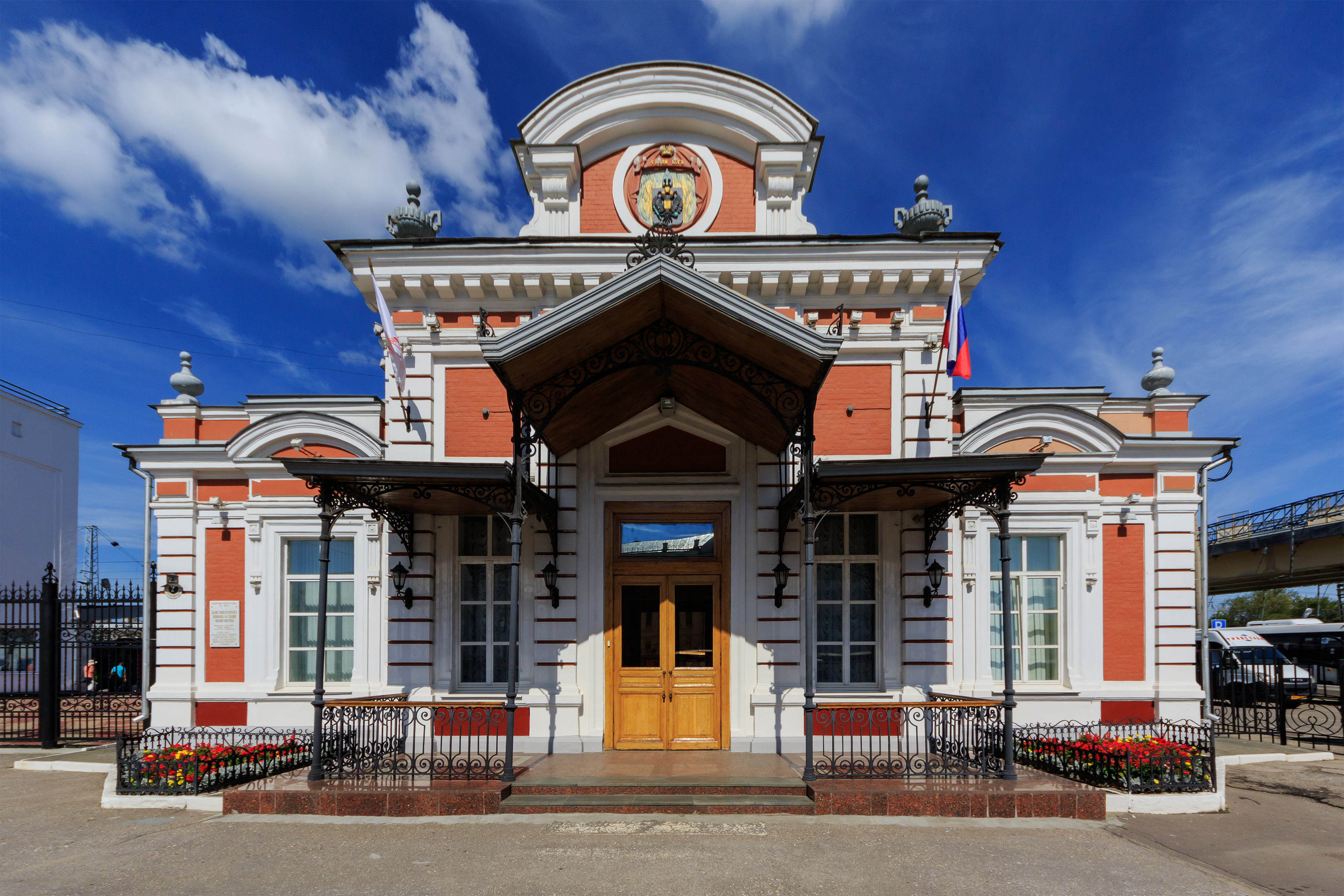 Former Emperor's Pavilion at Moskovsky Railway Terminal in Nizhny Novgorod, Russia